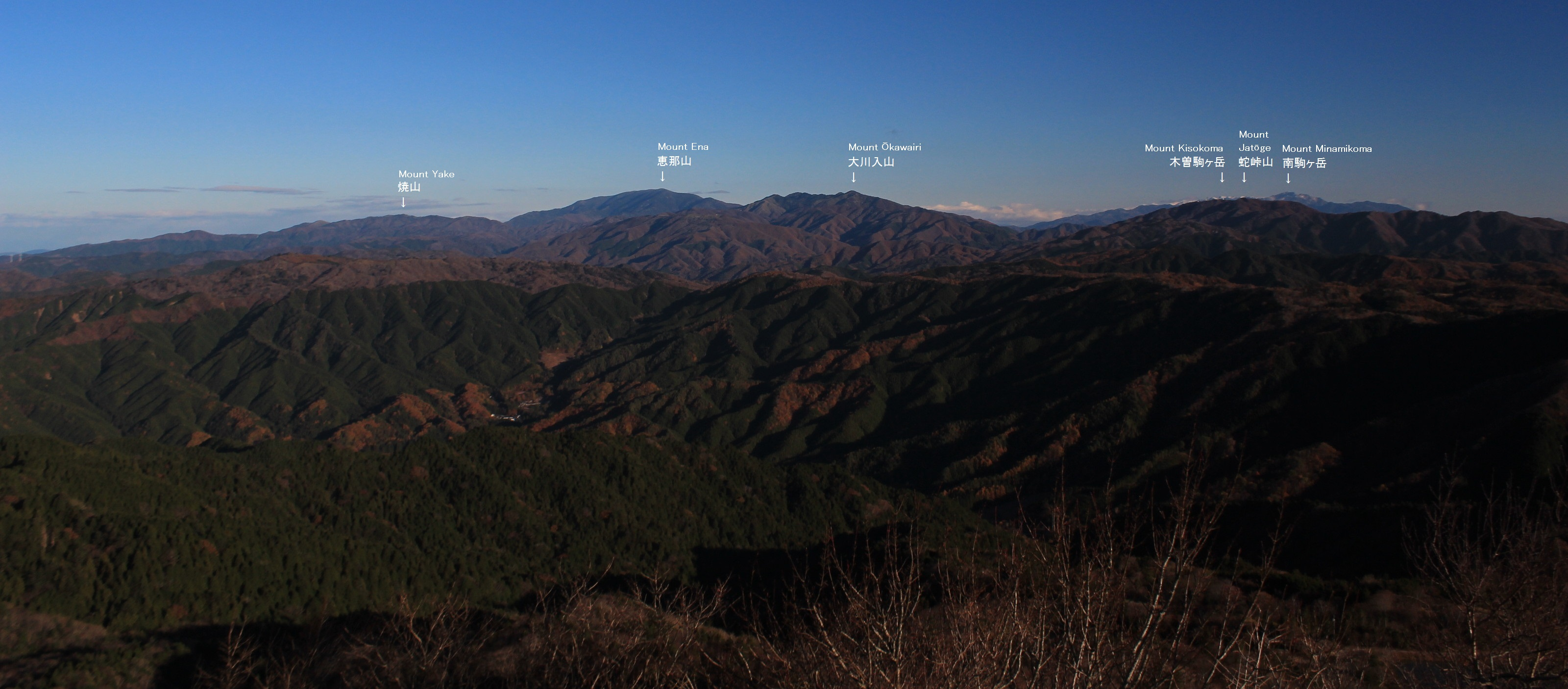 Kiso Mountains seen from Mount Chausu, in Japan. (with note)